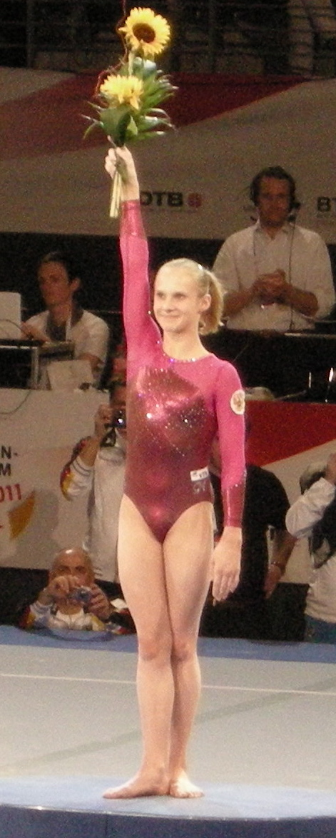 Anna Dementyeva on the podium after the all around competition at the 2011 European Artistic Gymnastics Championships